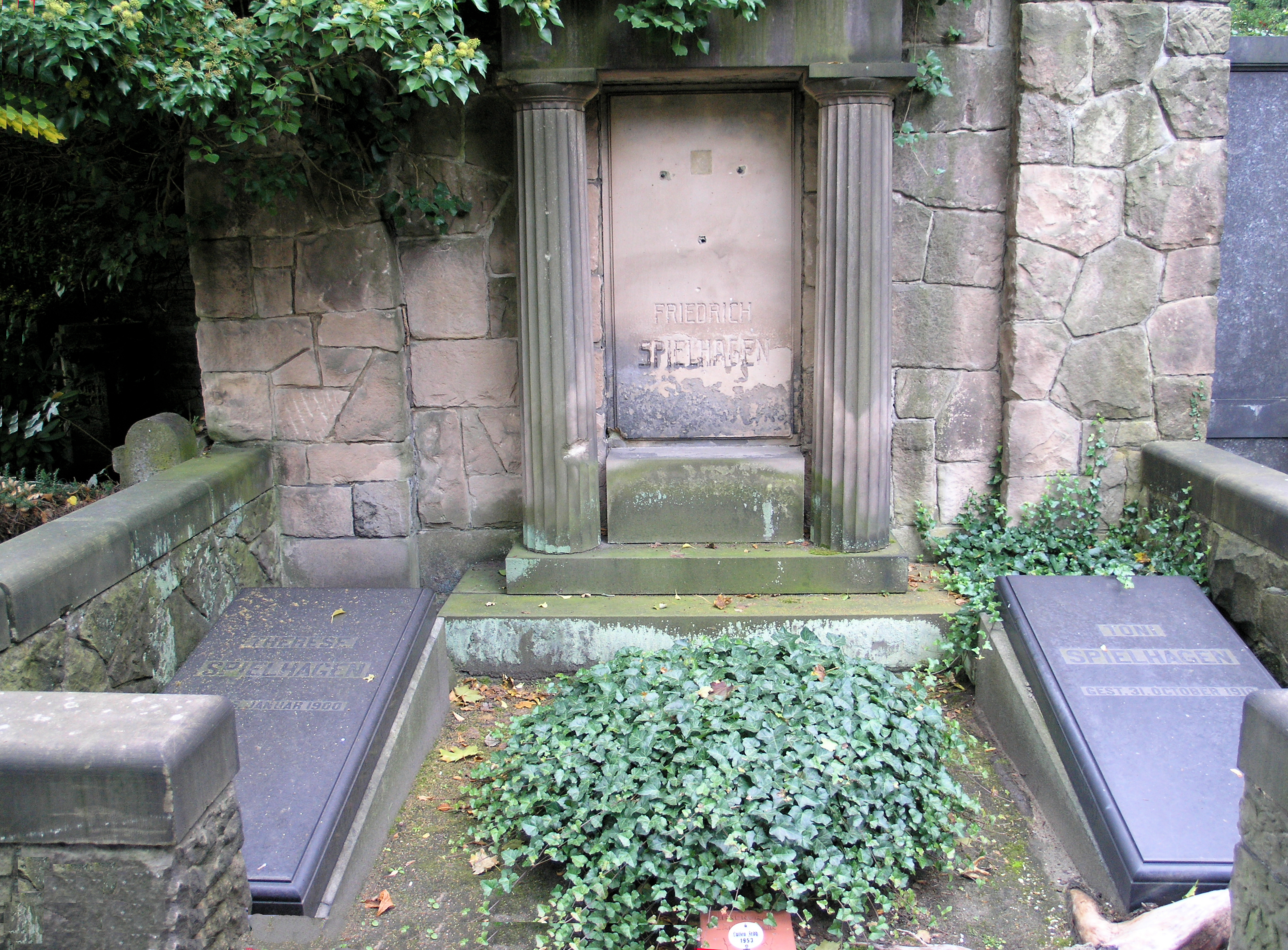 "Ehrengrab" (grave of honor), Friedrich Spielhagen, Fürstenbrunner Weg 69, Berlin-Westend, Germany